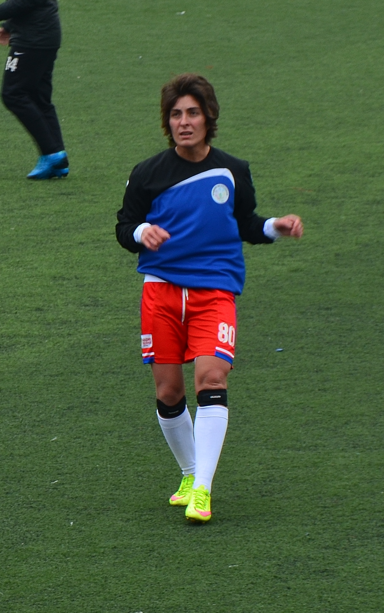 Lela Chichinadze playing for Ataşehir Belediyespor in the 2015-16 season in the home match against Kireçburnu Spor